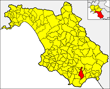 Locator map of the municipality of Roccagloriosa (red) within the Province of Salerno